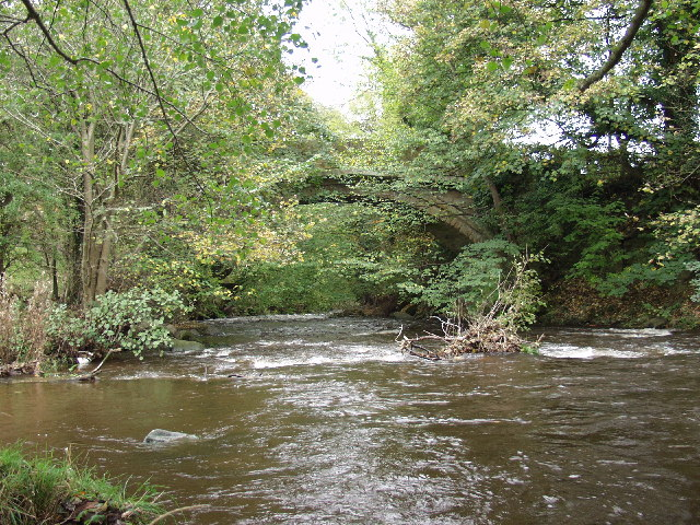 Pont-y-blew bridge over Afon Ceiriog. Wonderful traditional built sandstone bridge which has reinforced concrete slab laid on top of the arch. The traditional and probably original stone side walls fitted to the top. The stone dressing marks can still be seen on these slabs of stone, which are approx. 150mm thick.